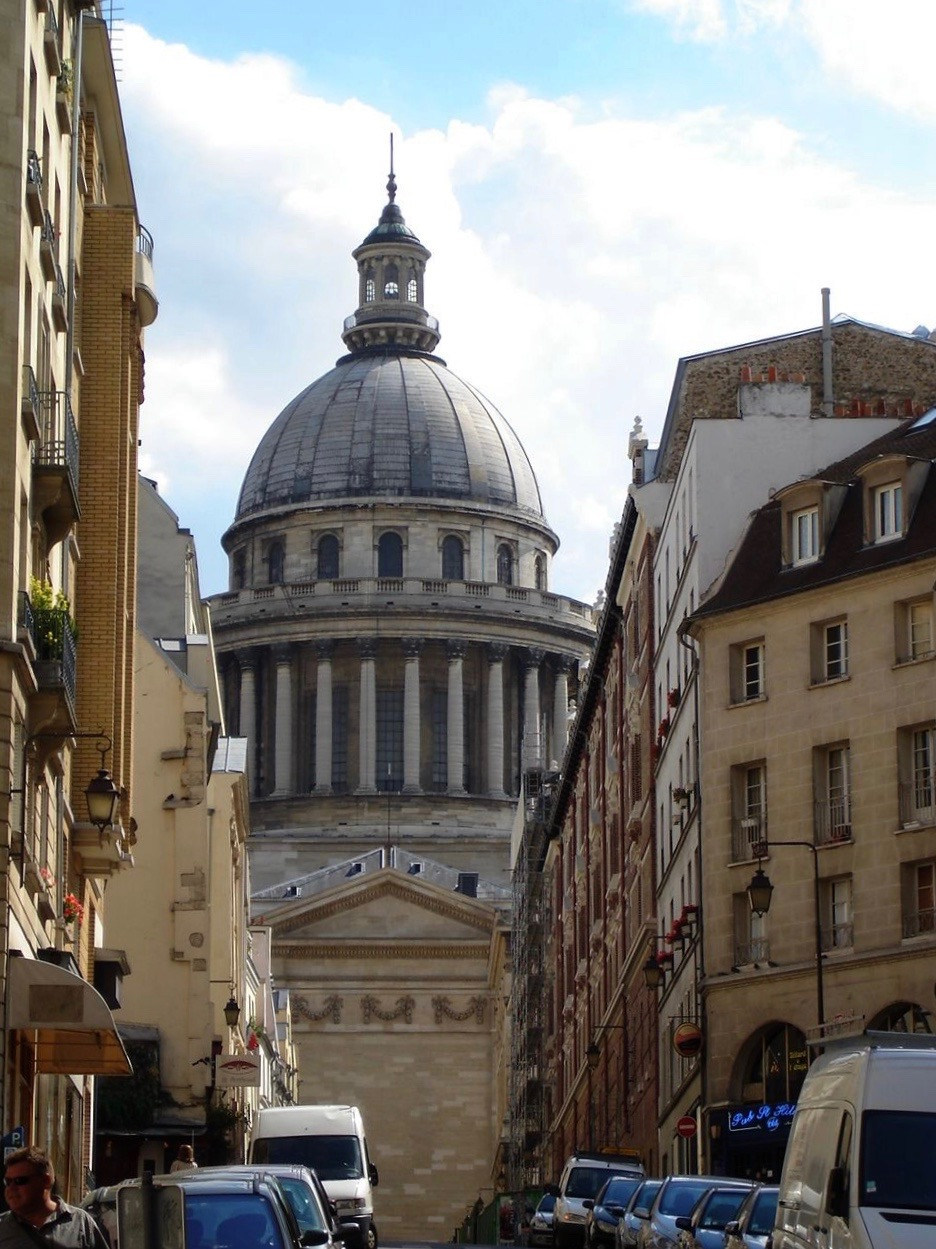 View of the Panthéon of Paris on the Rue Valette as seen from the Rue des Écoles.